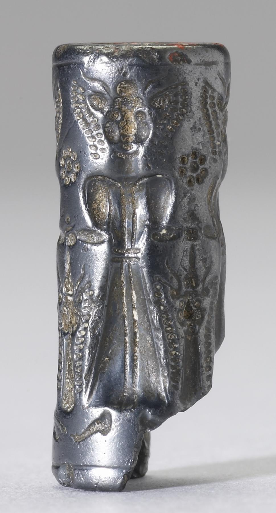 Cyprus produced cylinder seals only during the late 2nd millennium BC. These seals combine Syrian and Mesopotamian imagery in a uniquely Cypriot fashion. In this example, female figures wearing crowns hold long-necked animals in a pose derived from the Mesopotamian composition called "mistress of animals." The bead-like decoration on the dresses and the wings are also characteristic of Cypriot seals.